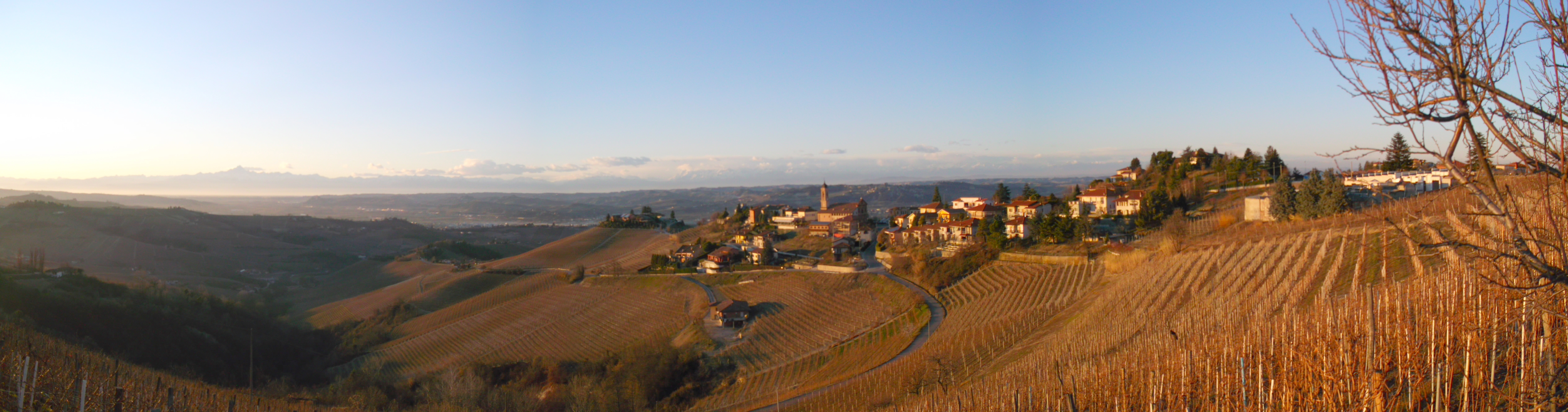 View over Treiso, Alba (CN) - Italy , Langhe District